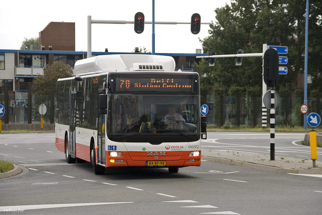 MAN Lion's City CNG city bus in the Netherlands.